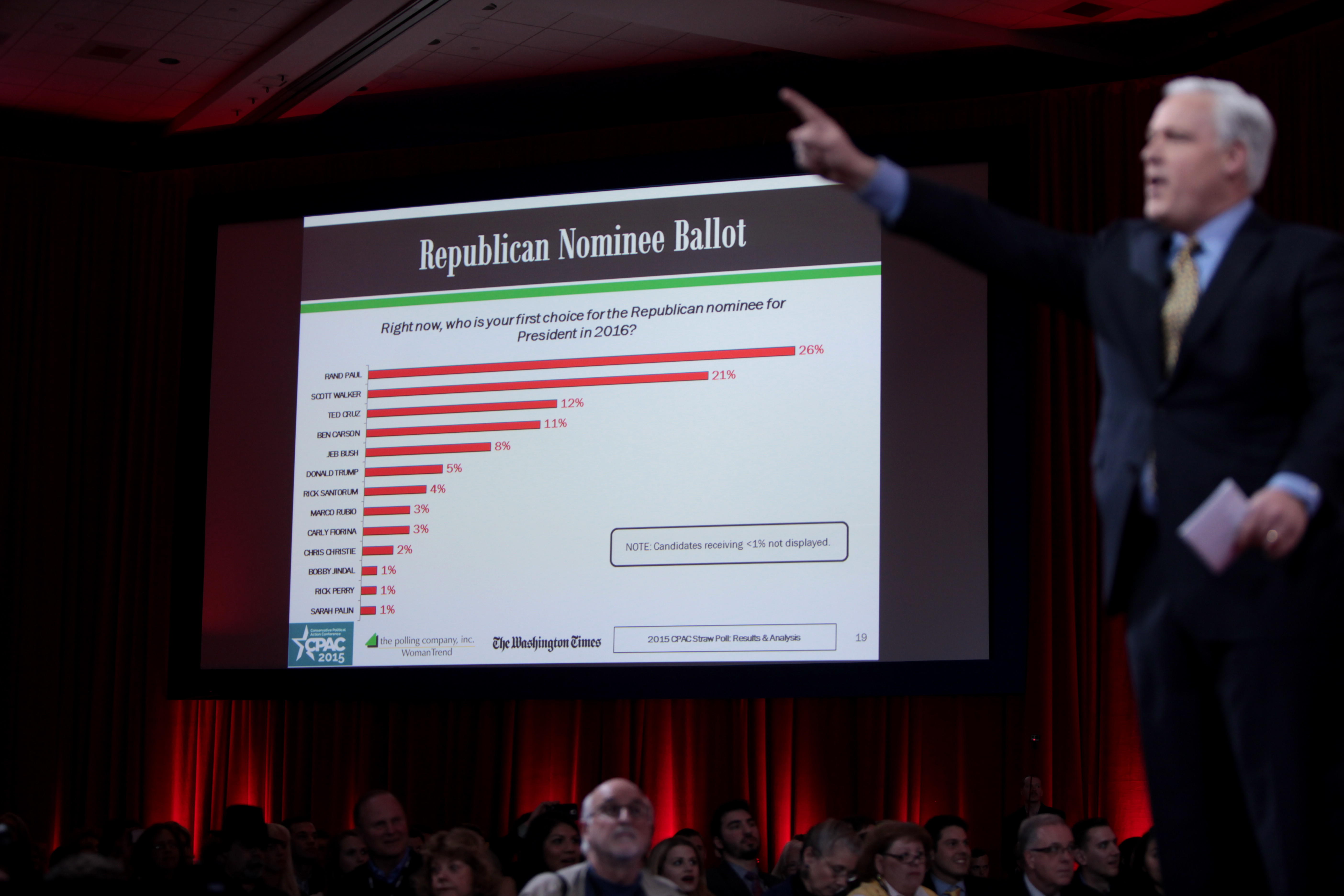 Straw poll at CPAC 2015 in Washington, DC.